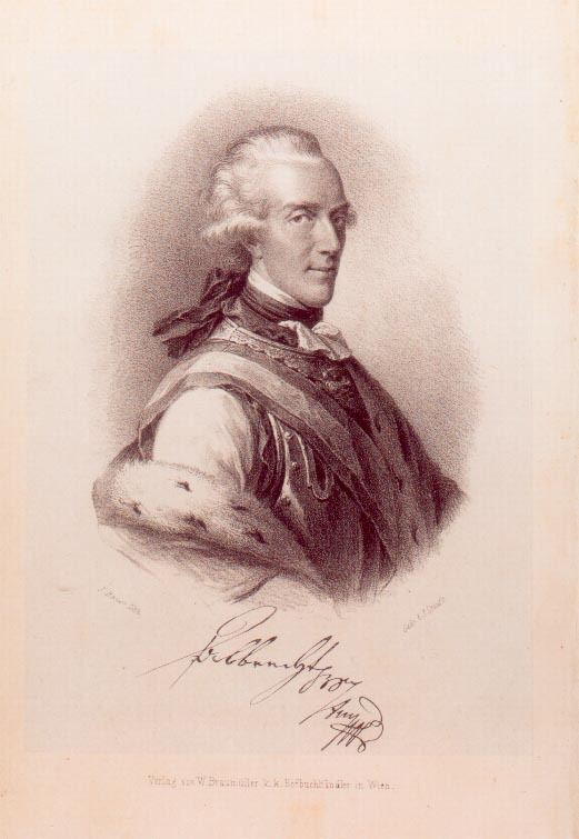 Albert Casimir van Saksen-Teschen. version which gives date of 1795